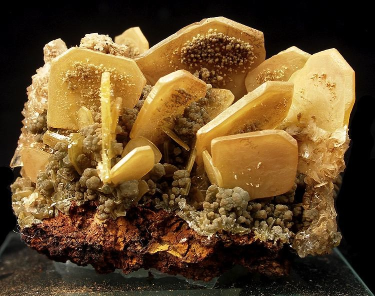 Wulfenite, Mimetite Locality: Ojuela Mine, Mapimí, Municipio de Mapimí, Durango, Mexico (Locality at ) Size: 3.9 x 3.3 x 3.1 cm. A classic cluster of butterscotch-colored wulfenite blades richly dusted with olive-green mimetite botryoids from the Mina Ojuela and the Jaime Bird Collection. The sharp, moderately lustrous wulfenite blades reach 1.8 cm on this fine, two-sided piece. The wulfenites artfully rest on a sturdy gossan matrix. This is a very fine and aesthetic Mina Ojuela wulfenite and mimetite combination piece, with the way the wulfenite blades project vertically. Older material from the early 1960s.